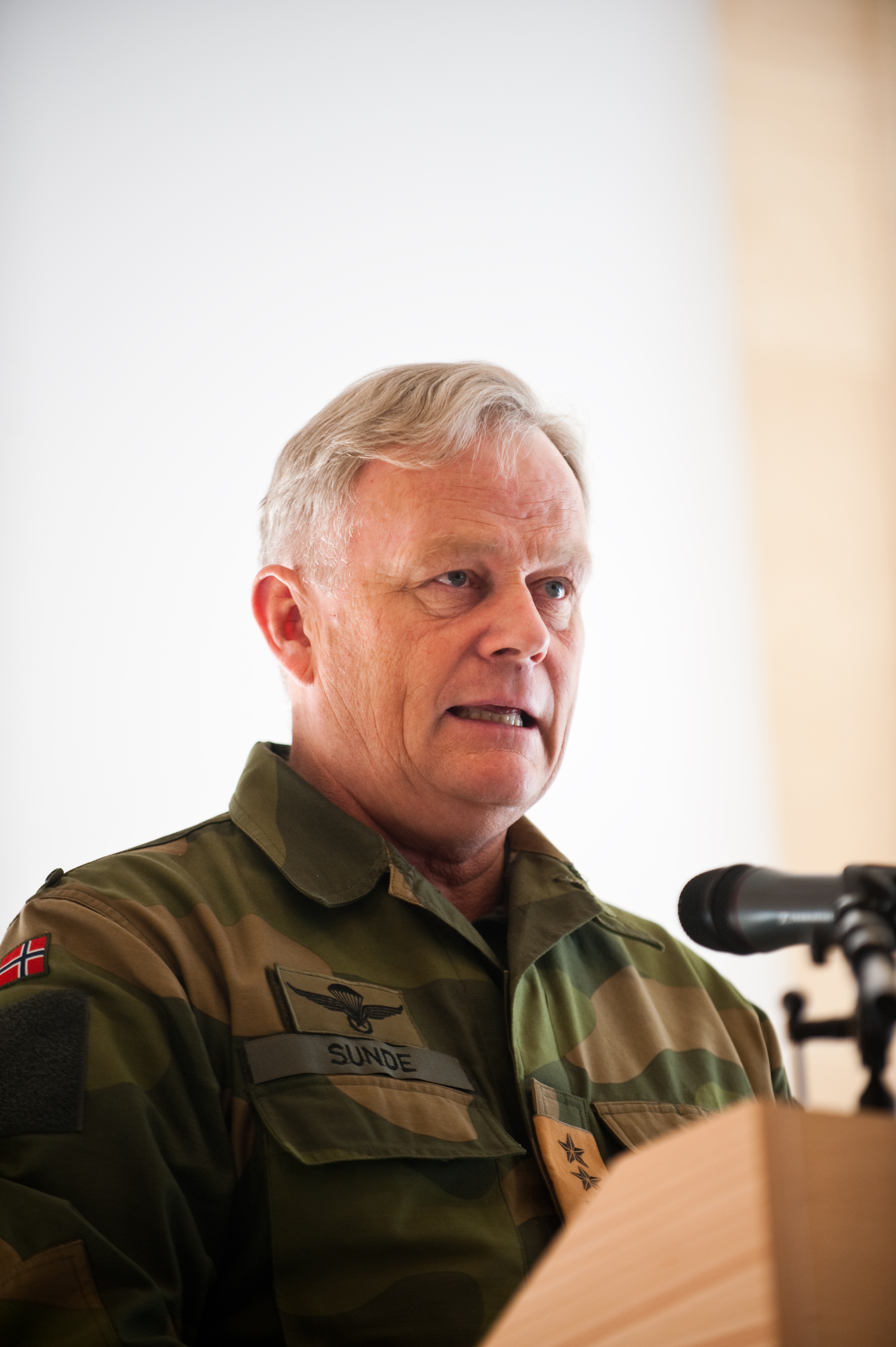 Chief of Defence of Norway speaking to a crowd regarding the Skjold and Setermoen operation.